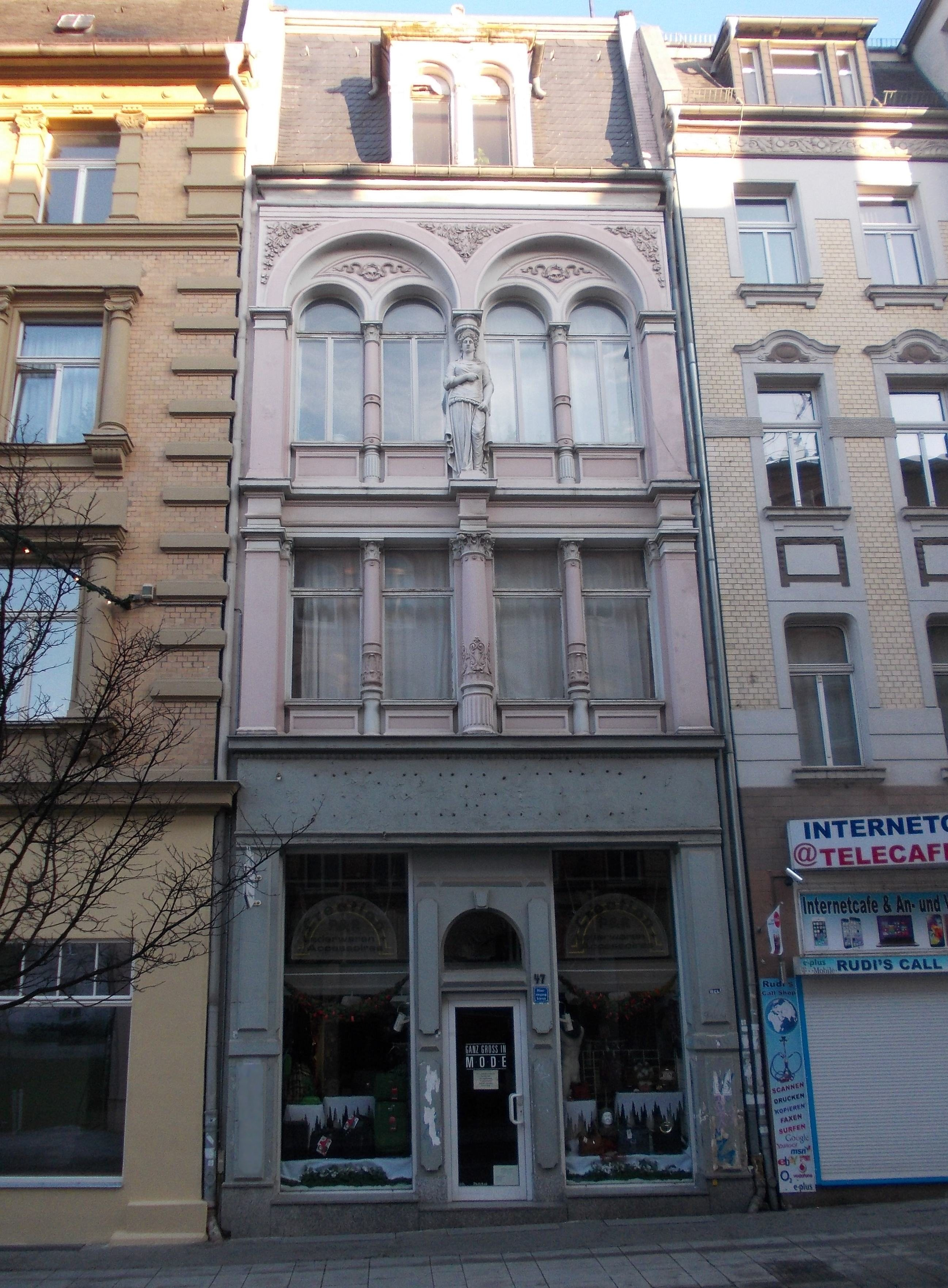 No., Leipziger Strasse in Halle (Saale), Saxony-Anhalt